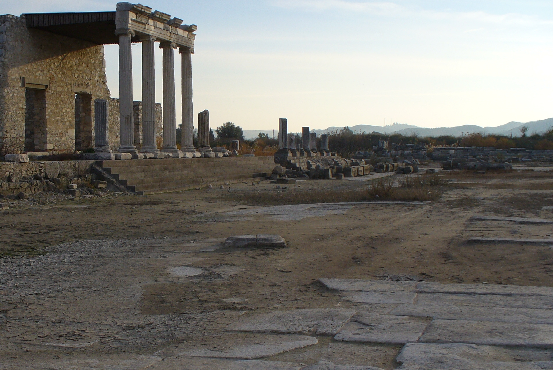 Stoa in the agora of Miletus.